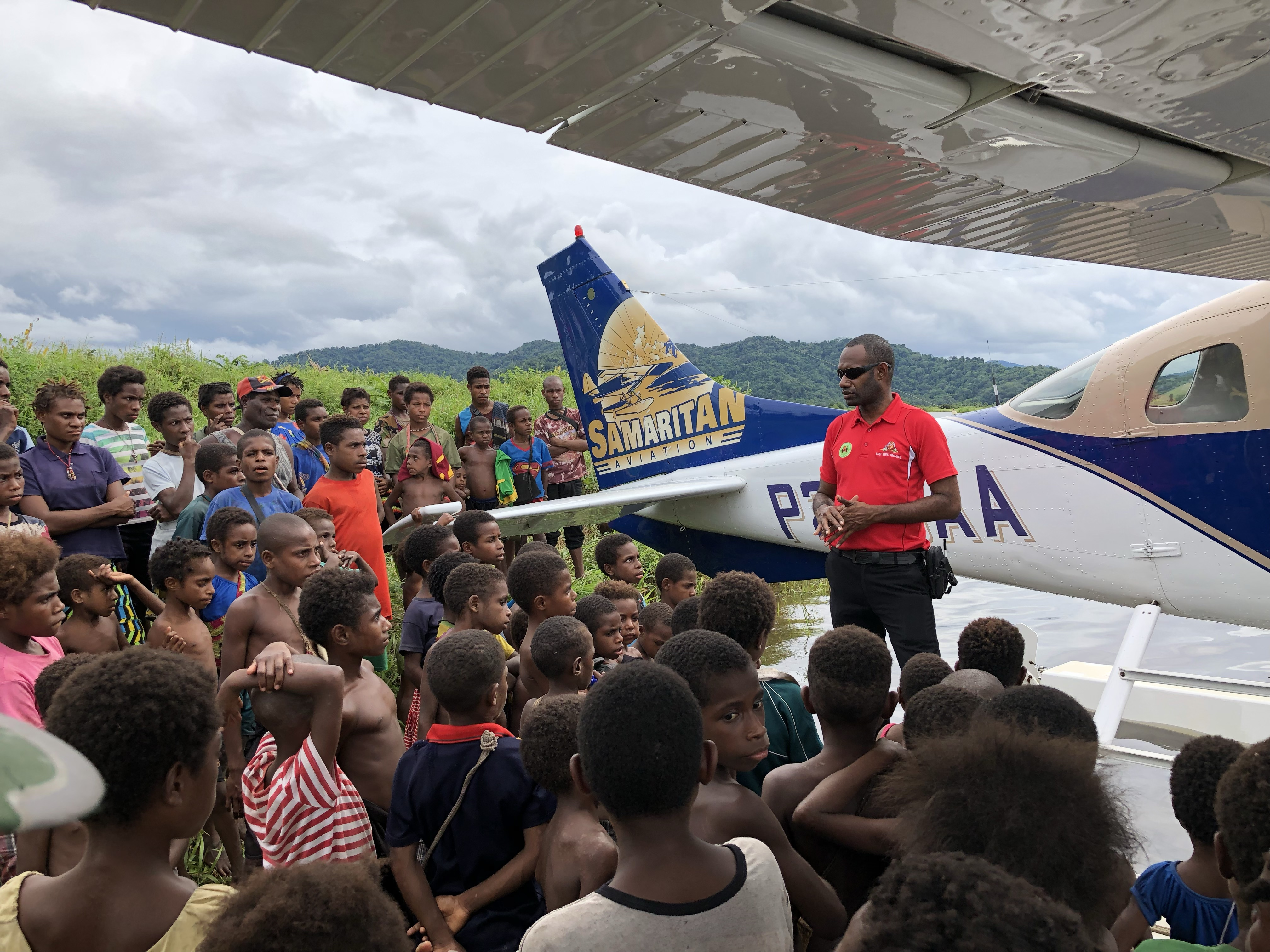 Dr. Preston Karue, the Provincial Health Authority Rural Health Coordinator during Round 3 of the National Polio Campaign